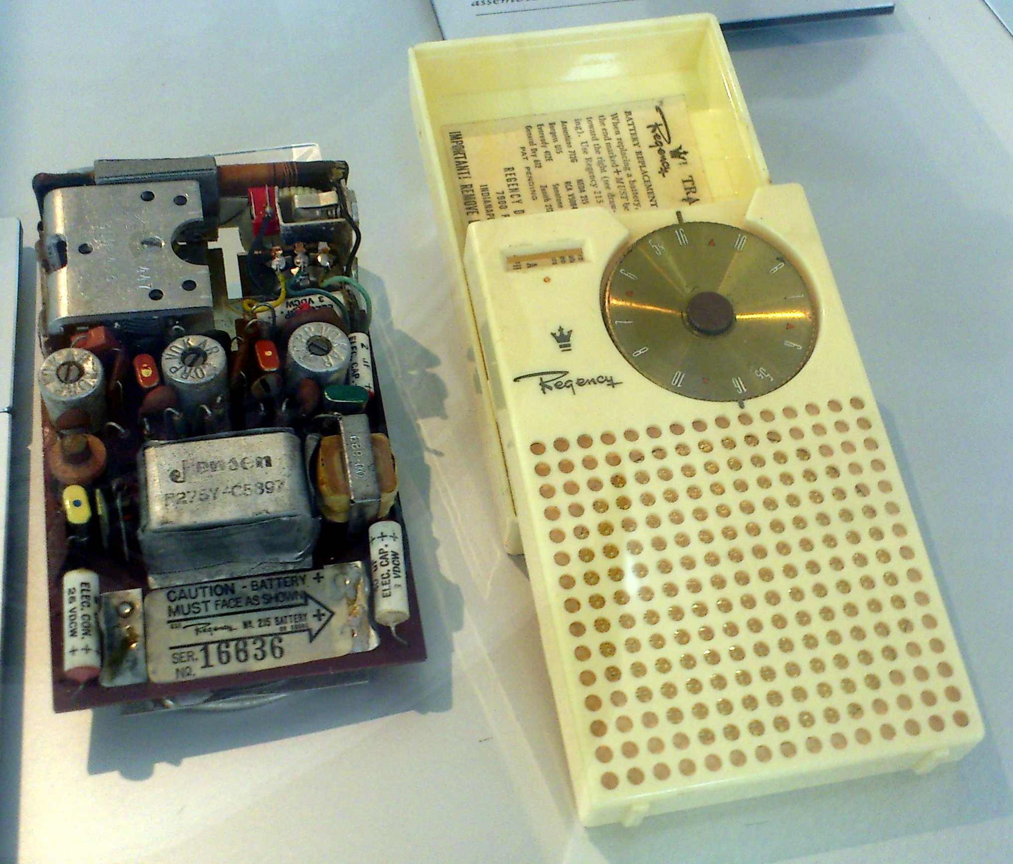 Regency TR-1, the first commercial transistor radio, circuit board removed from casing.Exhibit of Deutsches Museum, Munich.